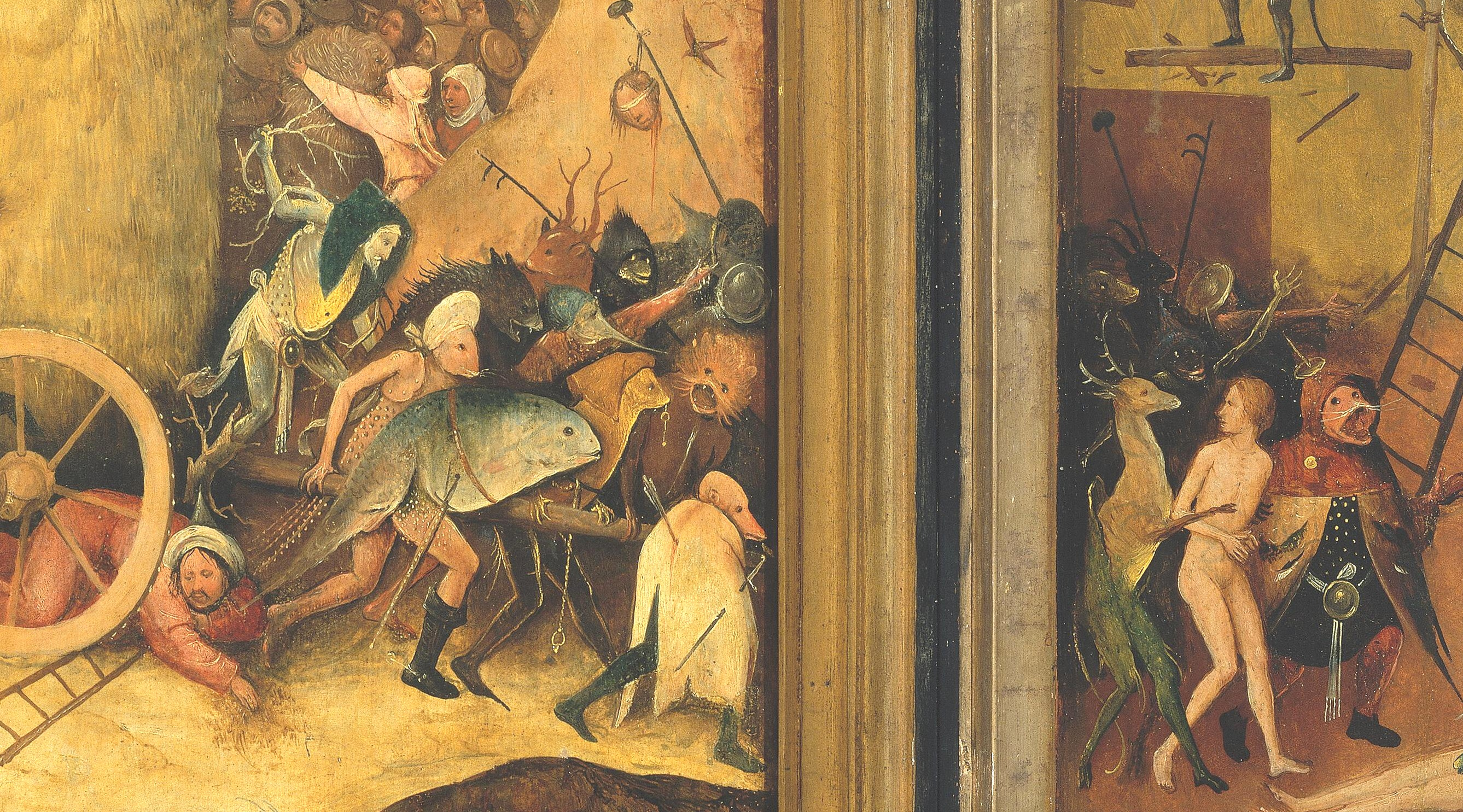 Transition from central to right panel in the triptych "The Haywain" by Hieronymus Bosch: Located: Prado Museum, Madrid